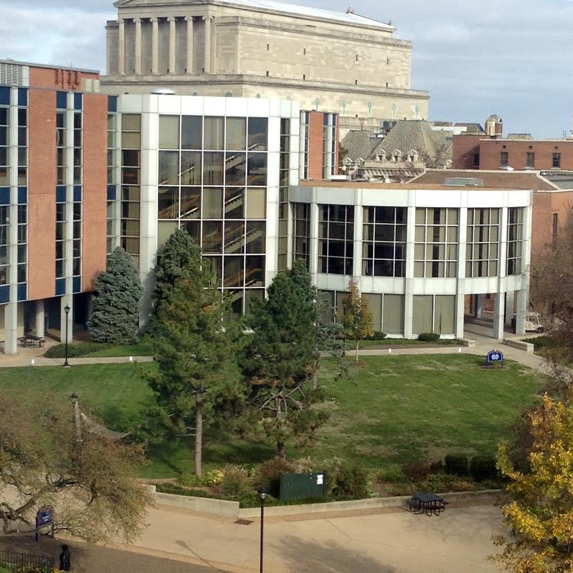 Pius XII Memorial Library taken by Marissa Krieg at Saint Louis University.